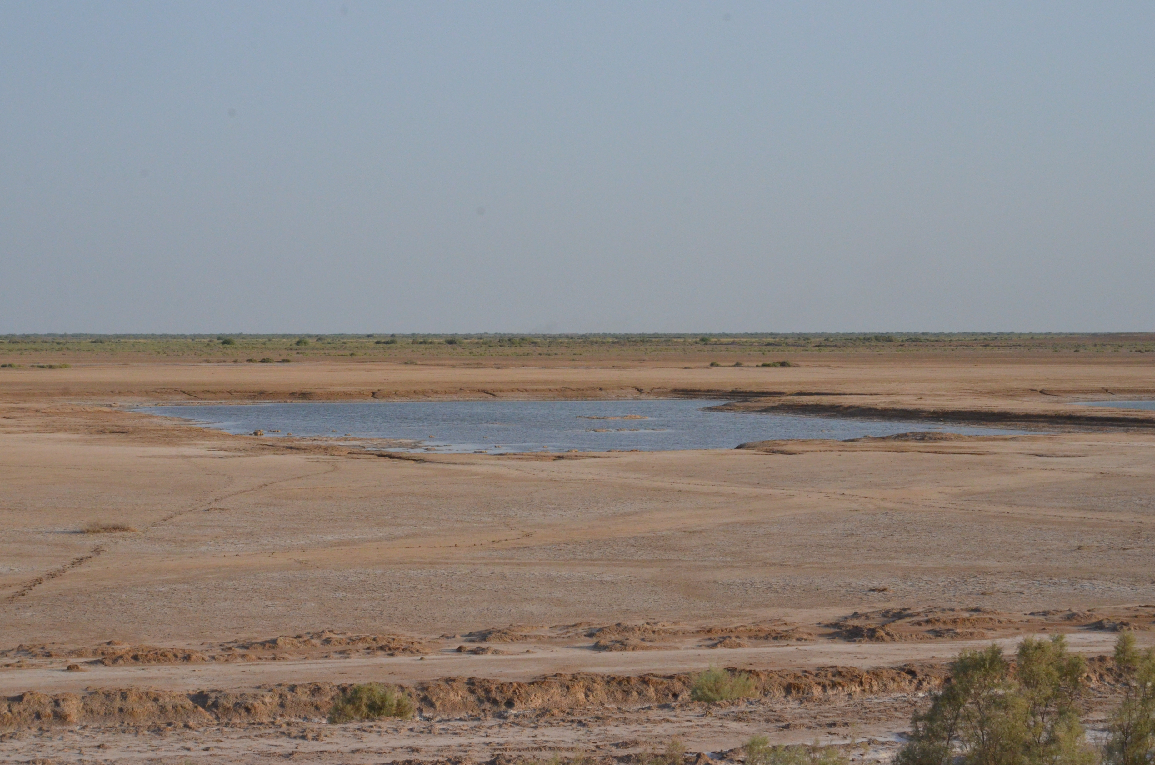 Dalmaj wetland, Afak, Al-Qadissiyah, Iraq.